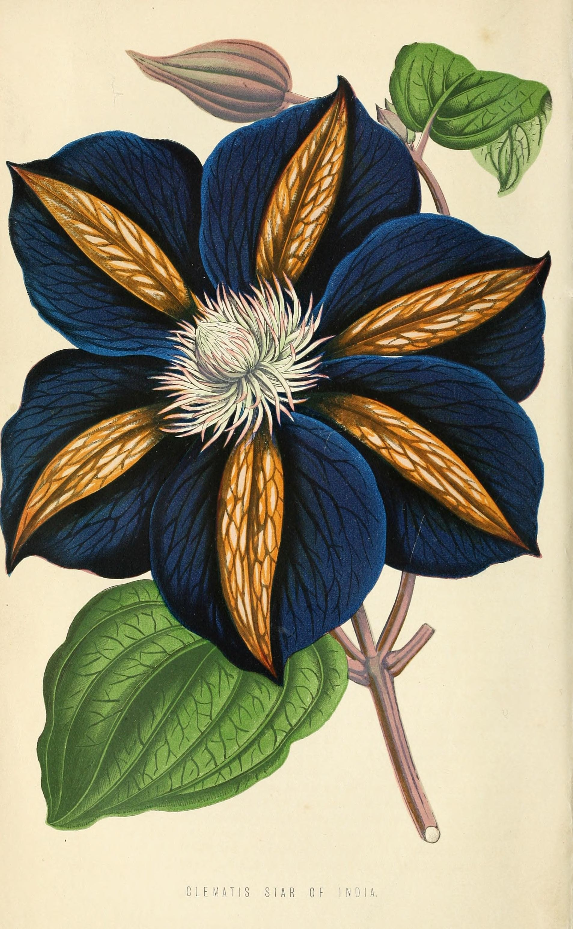 CLEMATIS STAR OF I